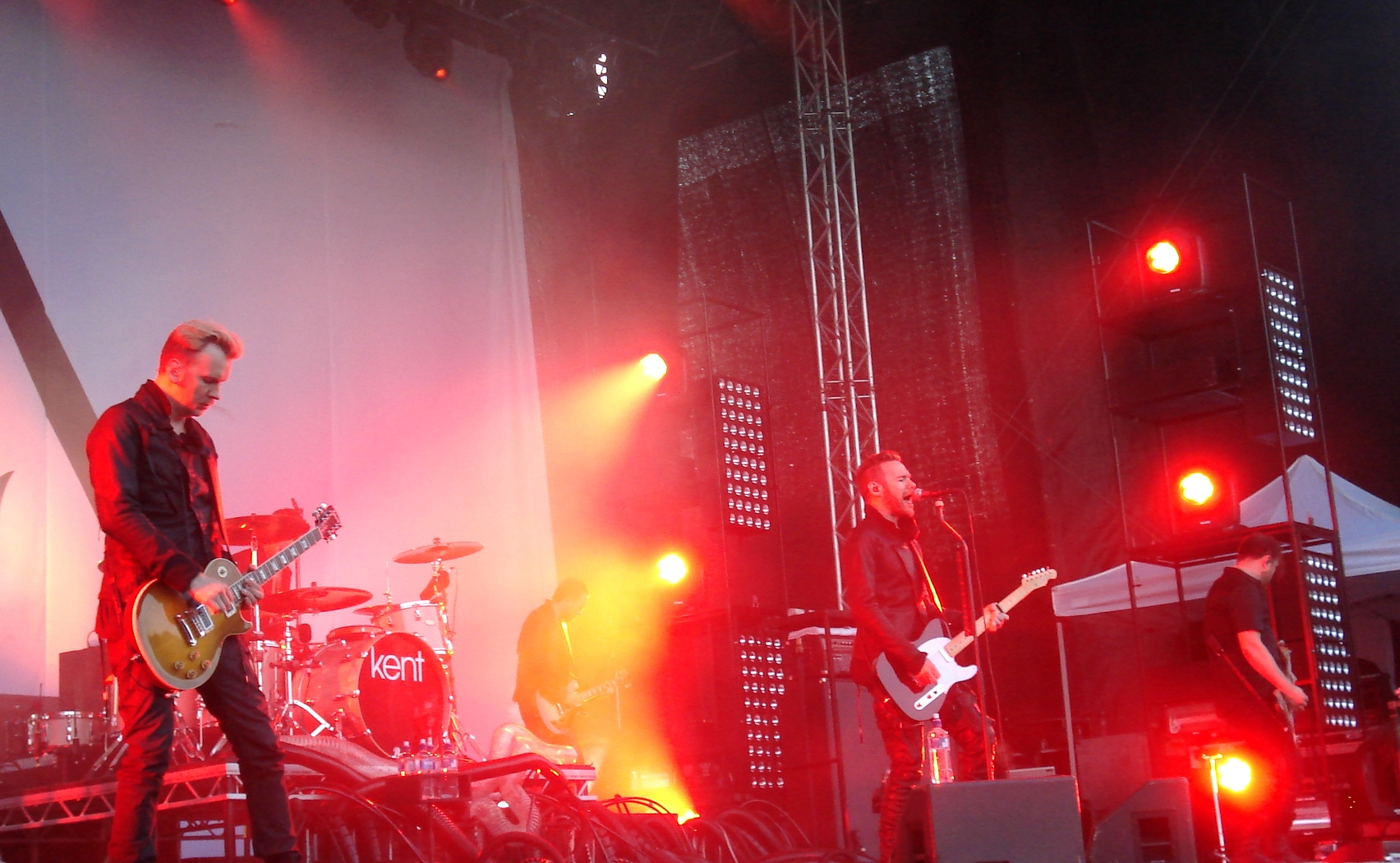 kent concert - Stockholm, 22/07/2010